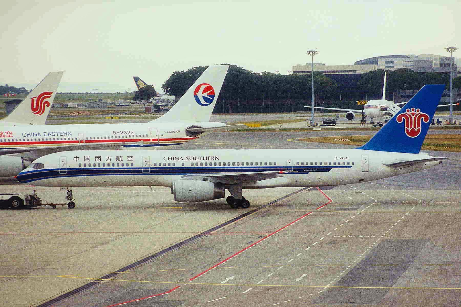 Top 3 Chinese carriers: Air China B767, China Eastern A300 and China Southern B757.